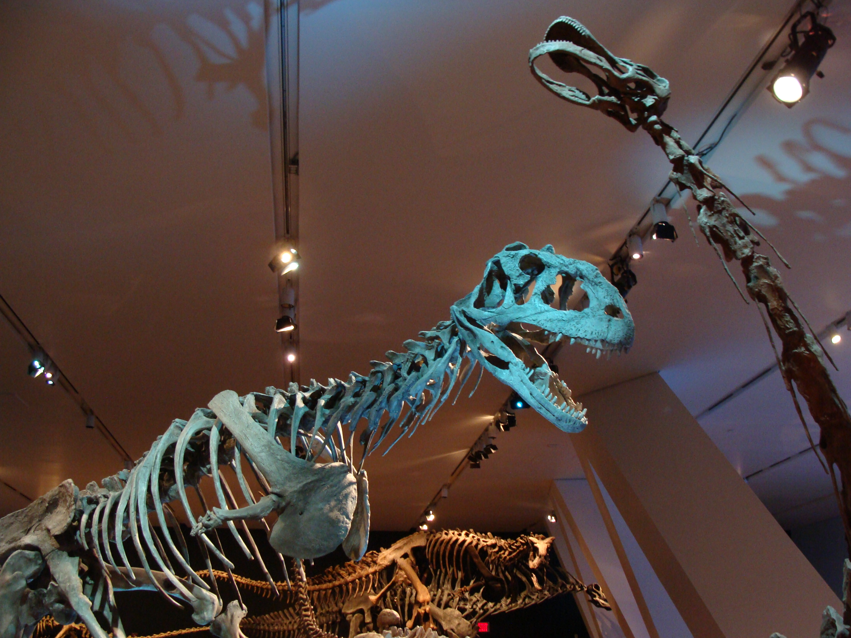 Majungasaurus on display at the Royal Ontario Museum.